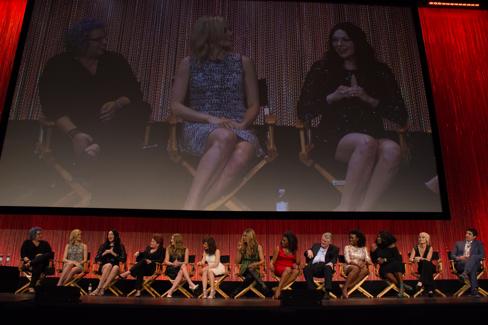 The cast from the TV show "Orange is the New Black" at The Paley Center For Media's PaleyFest 2014 Honoring "Orange Is The New Black". From left in chairs: Executive producer and creator Jenji Kohan, Taylor Schilling, Laura Prepon, Kate Mulgrew, Natasha Lyonne, Yael Stone, Laverne Cox, Lorraine Toussaint, Michael Harney, Uzo Aduba, Danielle Brooks, Taryn Manning and Jason Biggs